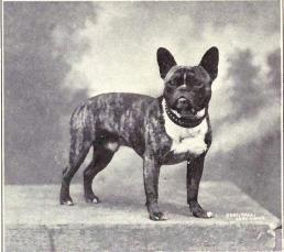 French Bulldog from 1915